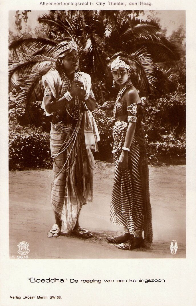 The translation of the Dutch text on the back of this postcard reads: “Seeta Devis plays in the new Indian film by Emelka: ‘Boeddha, De roeping van een koningszoon’, the role of Princess Gopa. Like all the other actors in the film she is not a professional, but was especially for this part discovered by director Franz Osten. When Osten heard that she would be the perfect type he was looking for, he traveled for 56 hours by train through burning hot India. And he made this beautiful, only 16 year old Indian girl a film star.” In fact the birthname of Seeta Devi (1921) is Renee Smith. She made her film debut in this film, officially called Prem Sanyas (or Die Leuchte Asiens, 1925). This German production was co-directed by Franz Osten and by the other actor on the postcard. Himansu Rai. Seeta Devi would act in ten more films.